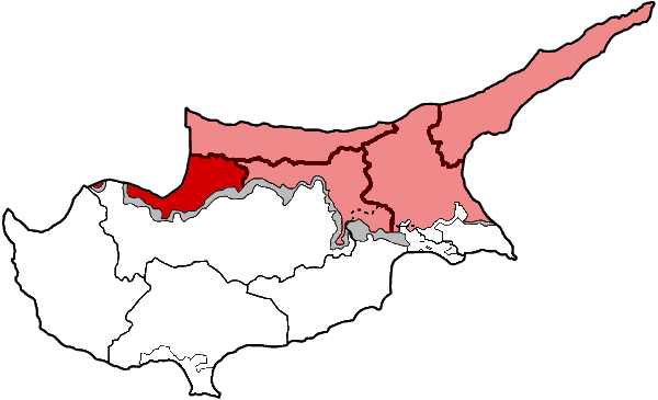 Locator map of the current de facto district of Güzelyurt (Morphou) in Northern Cyprus.